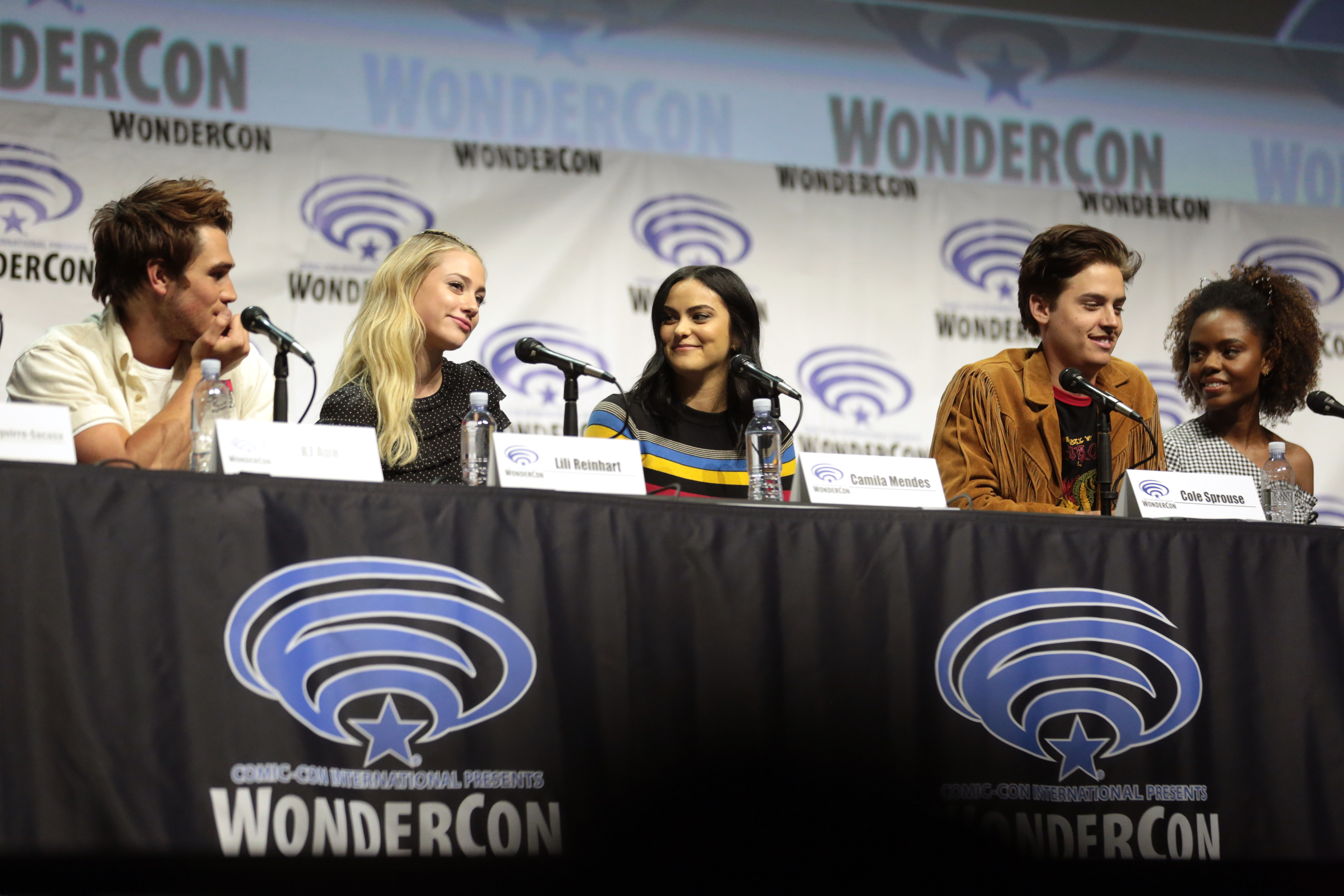 KJ Apa, Lili Reinhart, Camila Mendes, Cole Sprouse and Ashleigh Murray speaking at the 2017 WonderCon, for "Riverdale", at the Anaheim Convention Center in Anaheim, California.